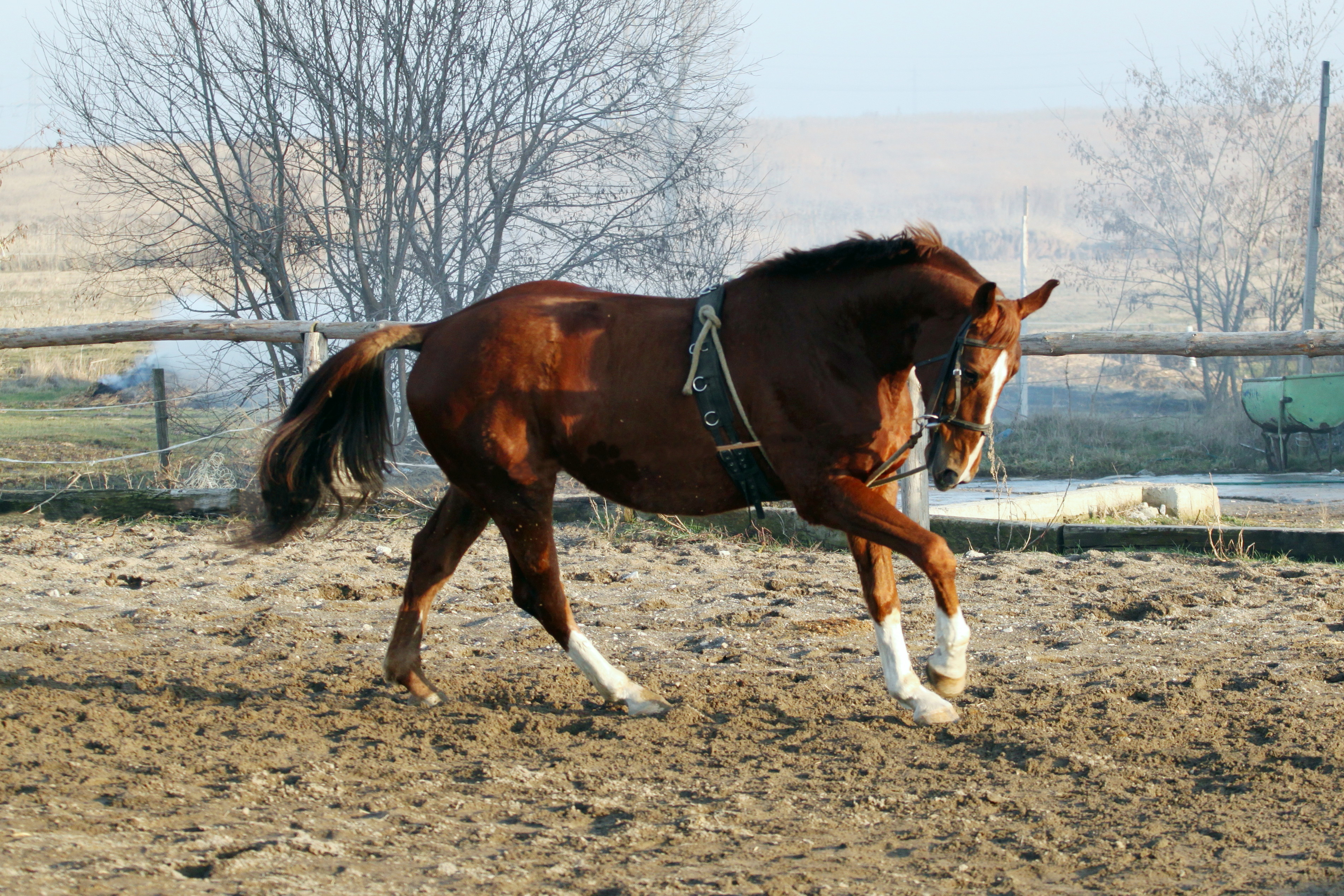 The Holsteiner is a breed of horse originating in the Schleswig-Holstein region of northern Germany. It is thought to be the oldest of warmblood breeds, tracing back to the 13th century. Though the population is not large, Holsteiners are a dominant force of international show jumping, and are found at the top levels of dressage, combined driving, show hunters, and eventing.